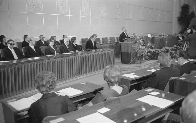 Bonn, Presentation of the War Blinded Audio Play Award Richard Hey receives the War Blinded Audio Play Award for "Nachtprogramm" from Dr. Ludwig, president of the German Federation of War Blind